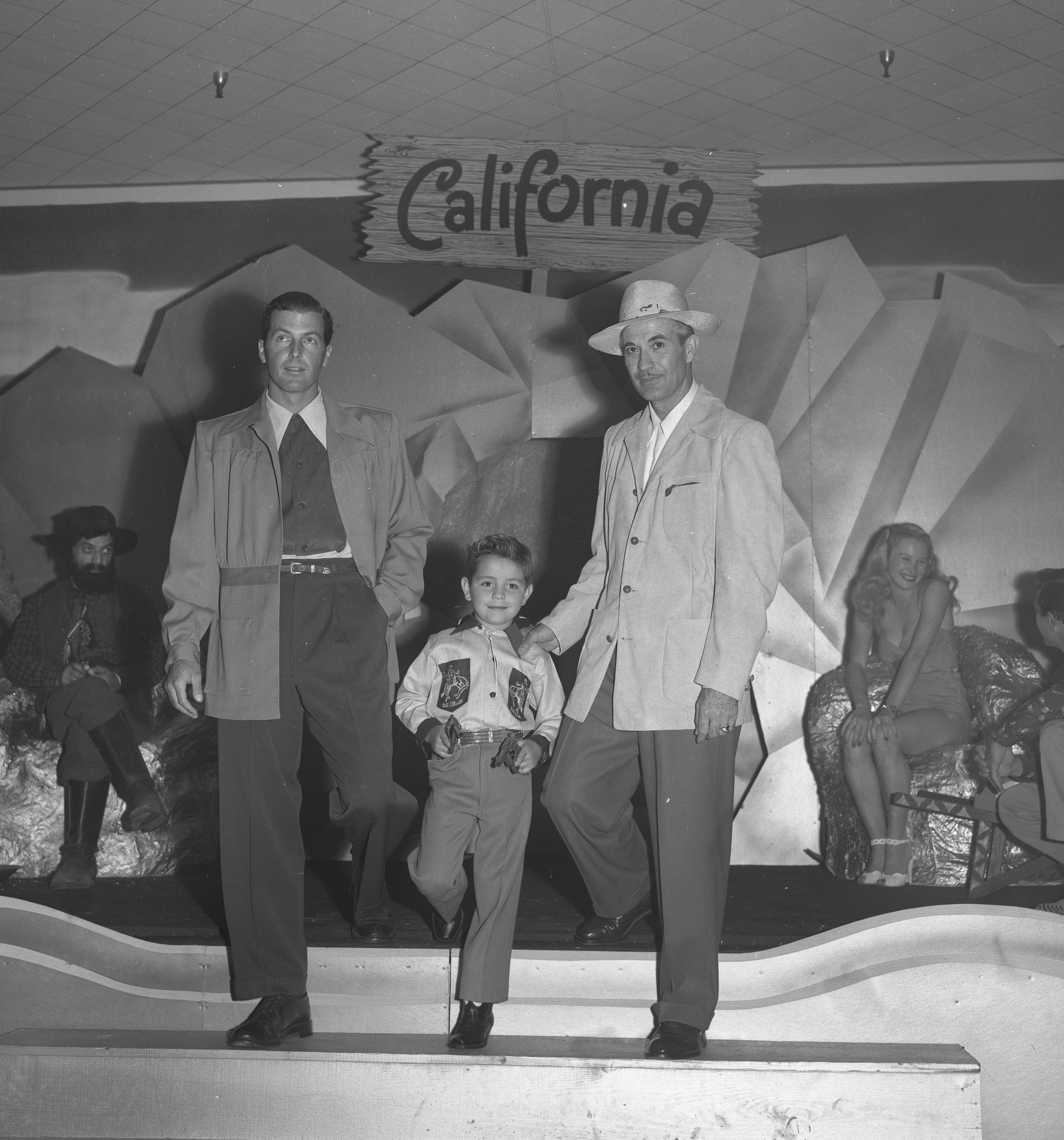 Title: Don Phillips, John Wayne Wright and Paul Bradley model new fall fashions for men, Calif., 1948 Published caption AUTUMN FORECAST -- From left, Don Phillips, John Wayne Wright and Paul Bradley model new fashions which men and boys are expected to wear in the fall. Subjects Fashion shows--California--Los Angeles Publication Los Angeles Times